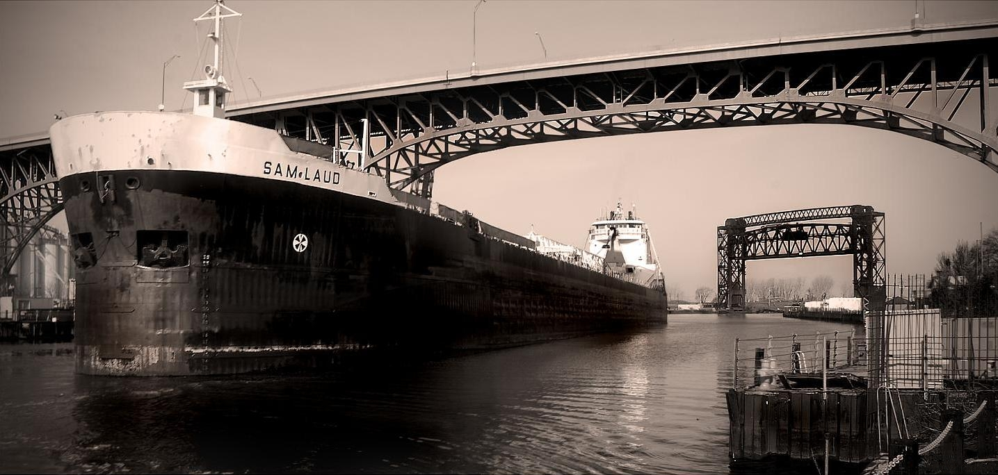 Ore Boat on the Cuyahoga River